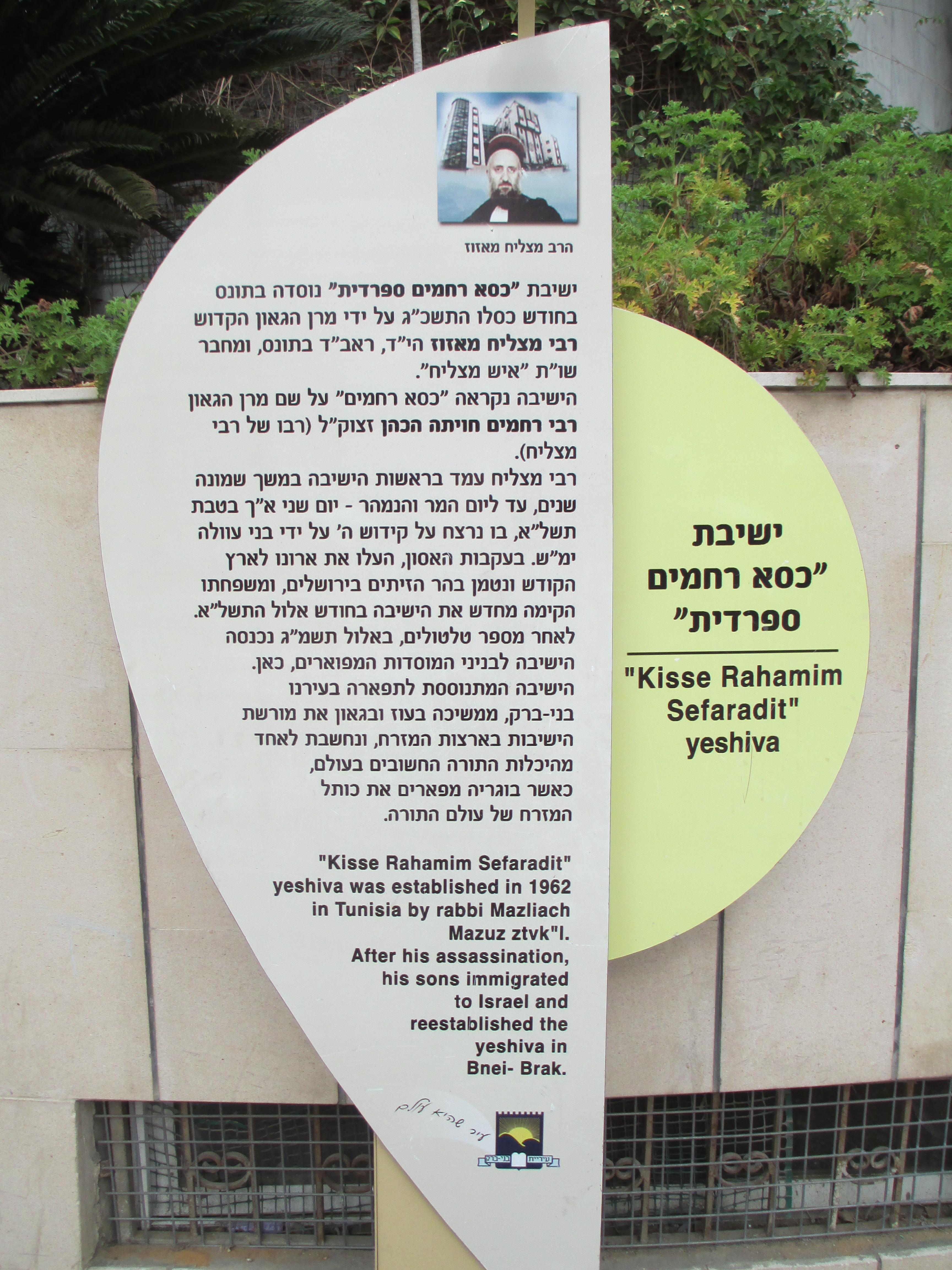 kisse rahamim yeshiva in bnei brak שלט הסבר על ישיבת כסא רחמים בבני ברק